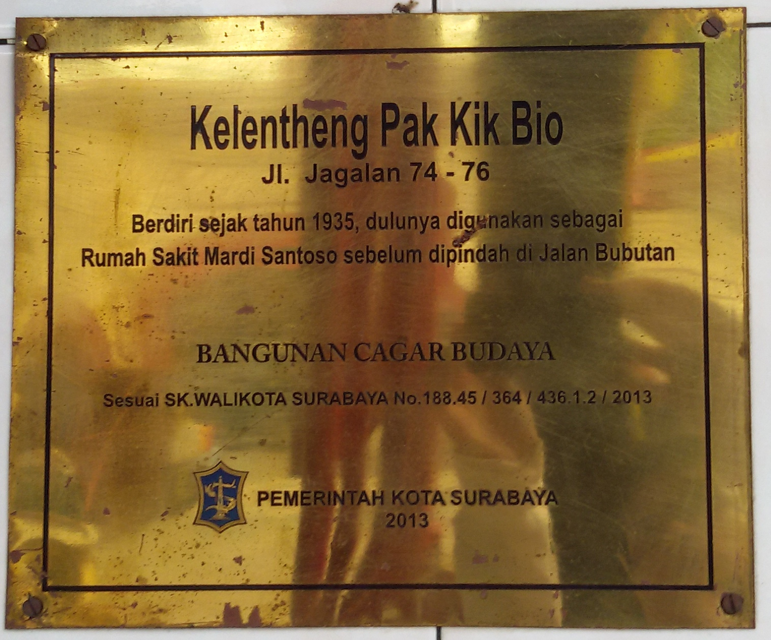 Historical building placate at Pak Kik Bio Temple, Surabaya, Indonesia